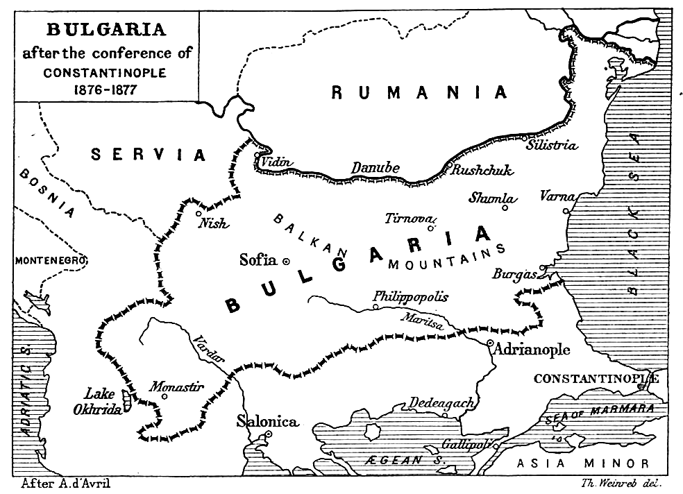 Map from "Report of the International Commission To Inquire into the Causes and Conduct of the Balkan Wars" 1914.